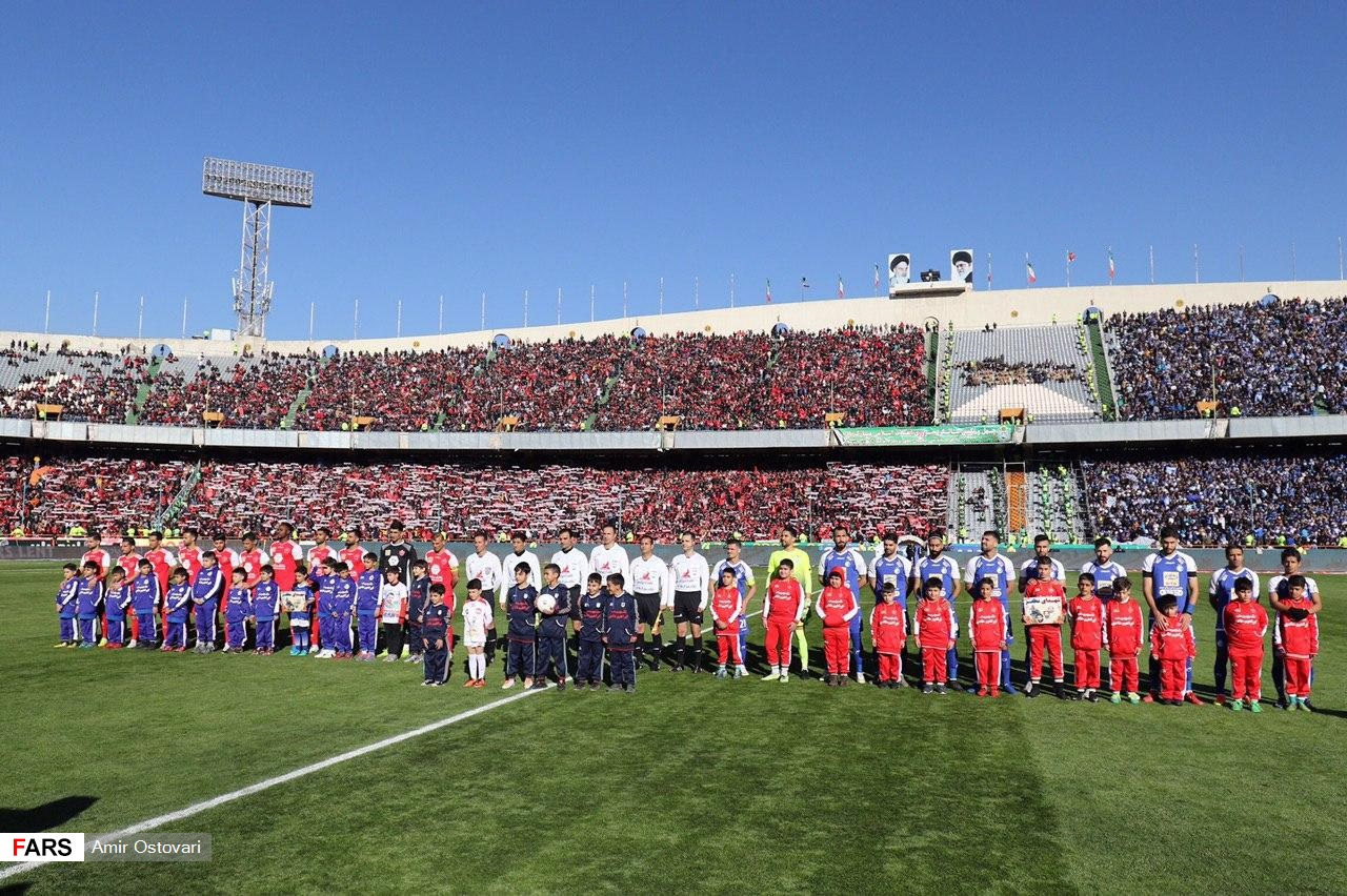 Persepolis F.C. v Esteghlal F.C., 6 February 2020.